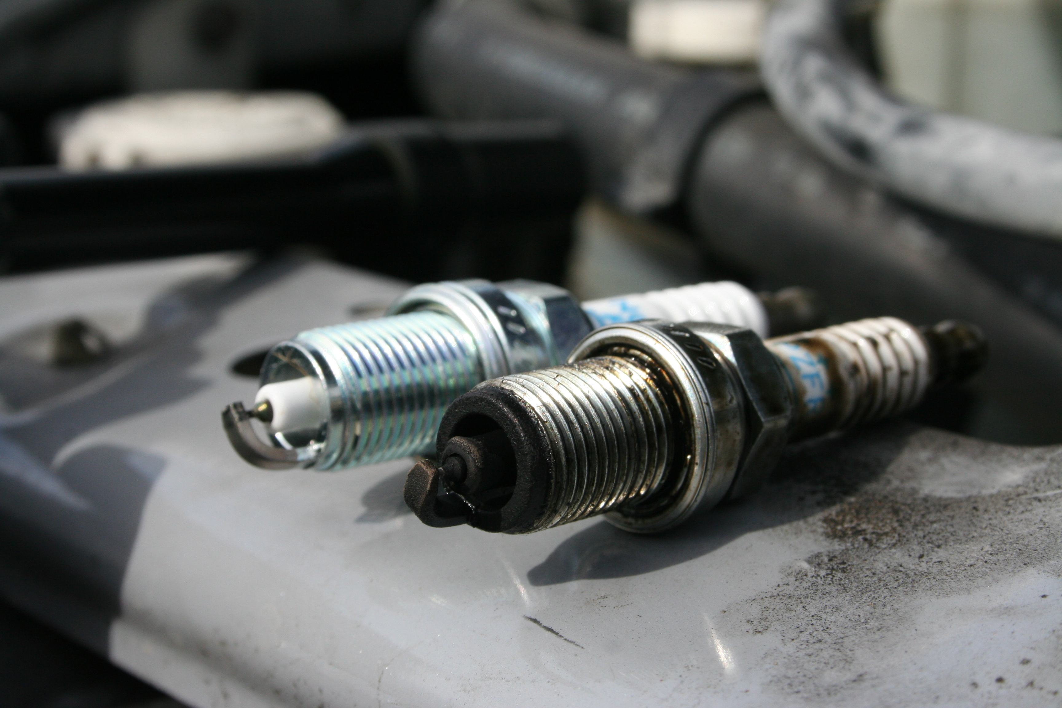 Spark plugs